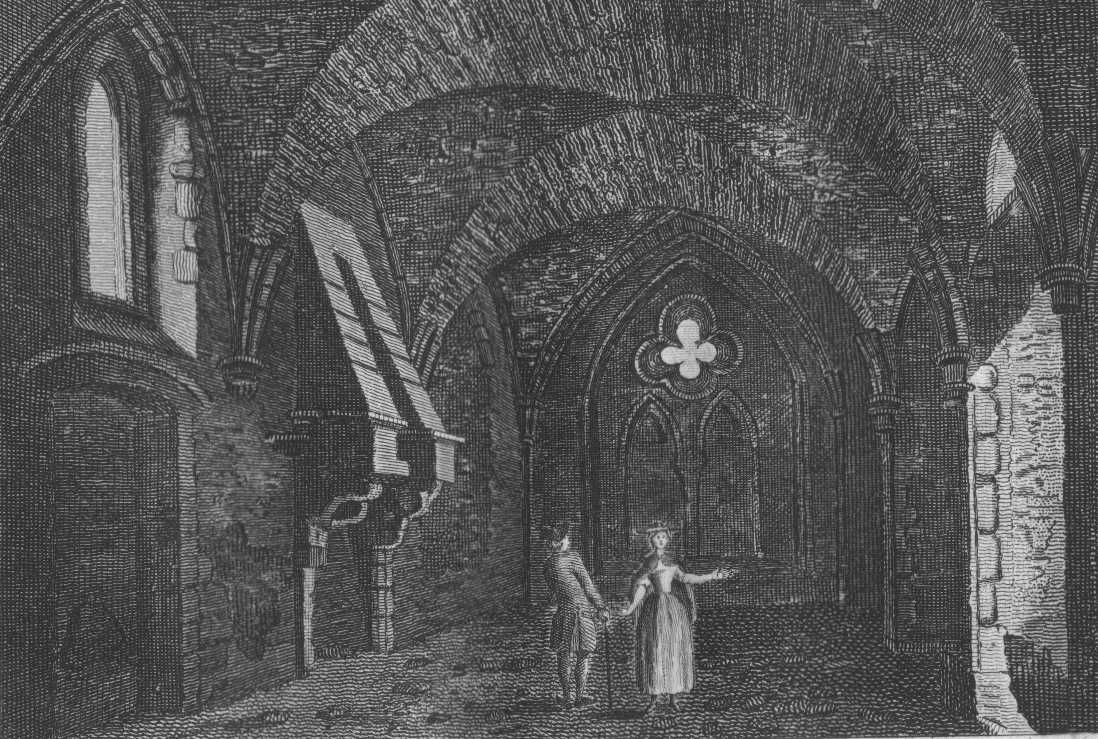 A pair of eighteenth century visitors explore the vaulted hall on the ground floor of the reredorter at Netley Abbey. The room has changed very little from their time save that the blocked windows and doors have been re-opened.